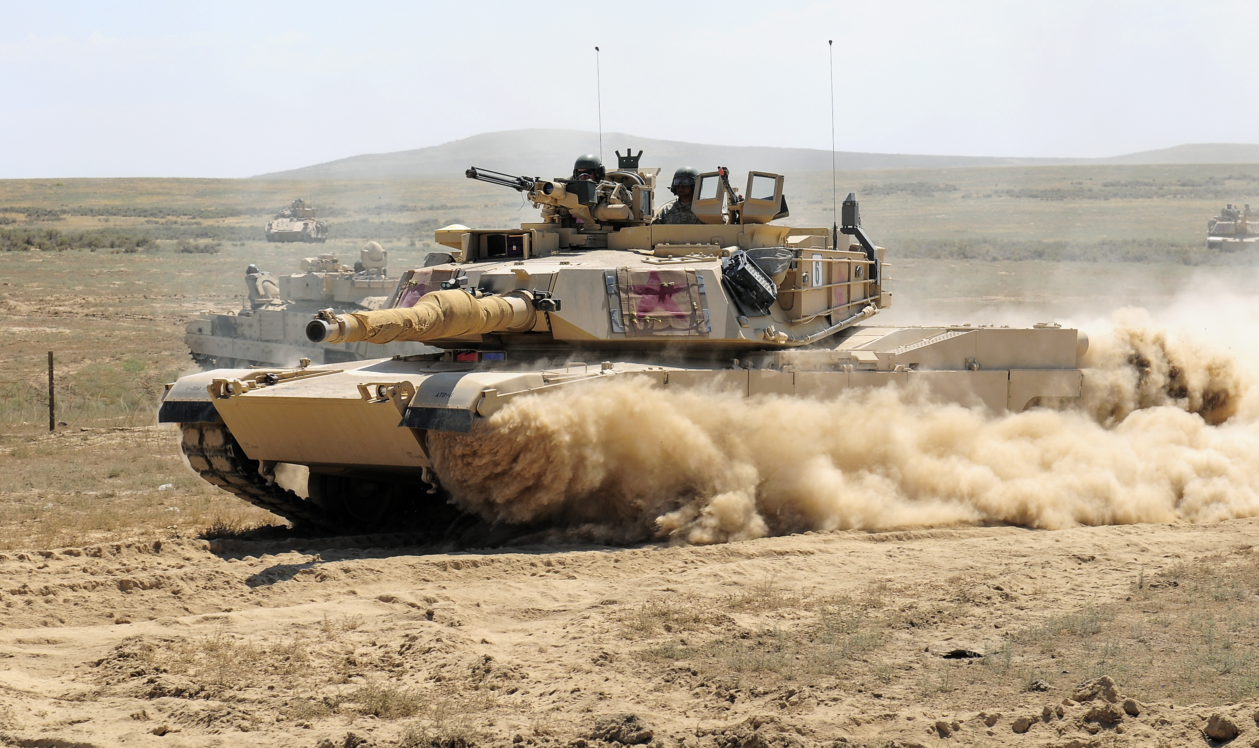 An M1A1 Abrams main battle tank from the Minnesota National Guard races through a breach in a barbed wire obstacle during the 116th eXportable Combat Training Exercise at the Orchard Combat Training Center, Idaho, Aug. 21. The XCTC is a program of record used by the Army National Guard since 2005 to train more than 11 combat and functional brigades. XCTC is a cost-efficient, time-efficient option for delivering combat readiness training to Soldiers at or near their home stations. This scalable live-training program has proven effective for pre-mobilization forces, in accordance with the Army Force Generation model. (U.S. Army photo by Sgt. Leon Cook, 20th Public Affairs Detachment)